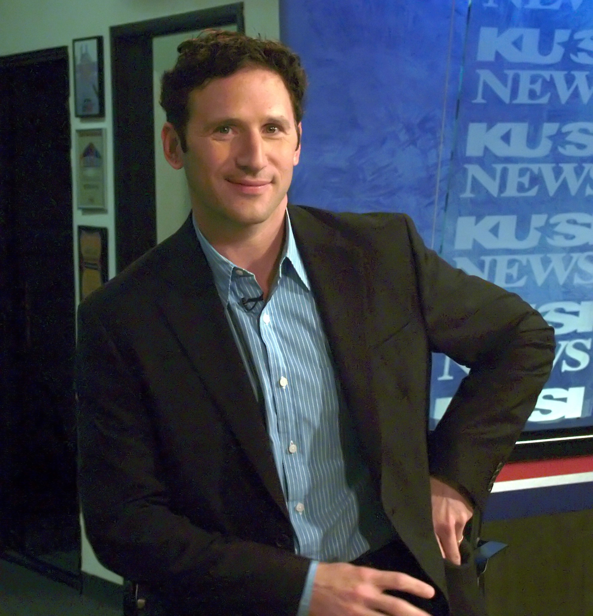 Mark Feuerstein. I personally took this photo (it is NOT a screenshot) while he was at my television station waiting to be interviewed about his new movie Defiance. Please acknowledge "Phil Konstantin" as the creator of this photograph.